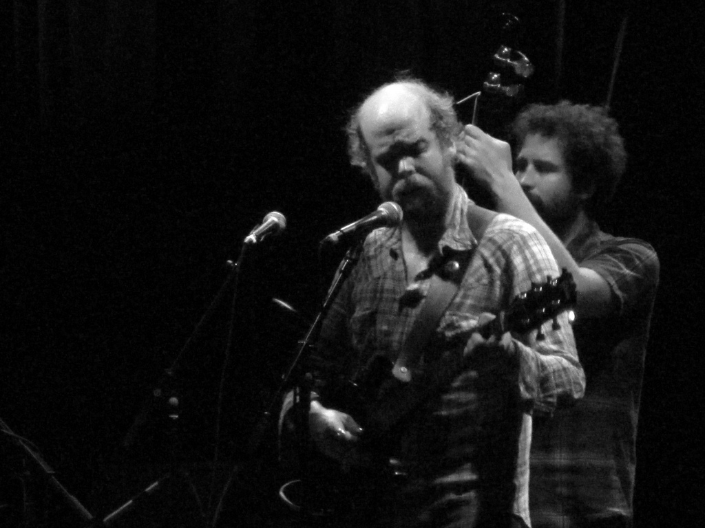 Bonnie 'Prince' Billy performing at the Granada Theater in Dallas, TX on June 6, 2009.